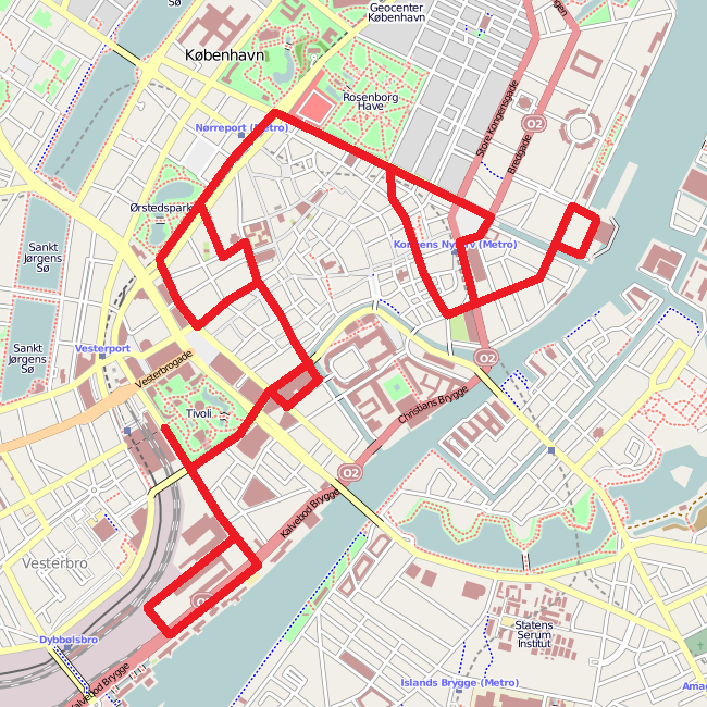 Map of Copenhagen bus line 11A, which existed from 2010 to 2014. The map shows the line as it was at the last day, 31 december 2014.